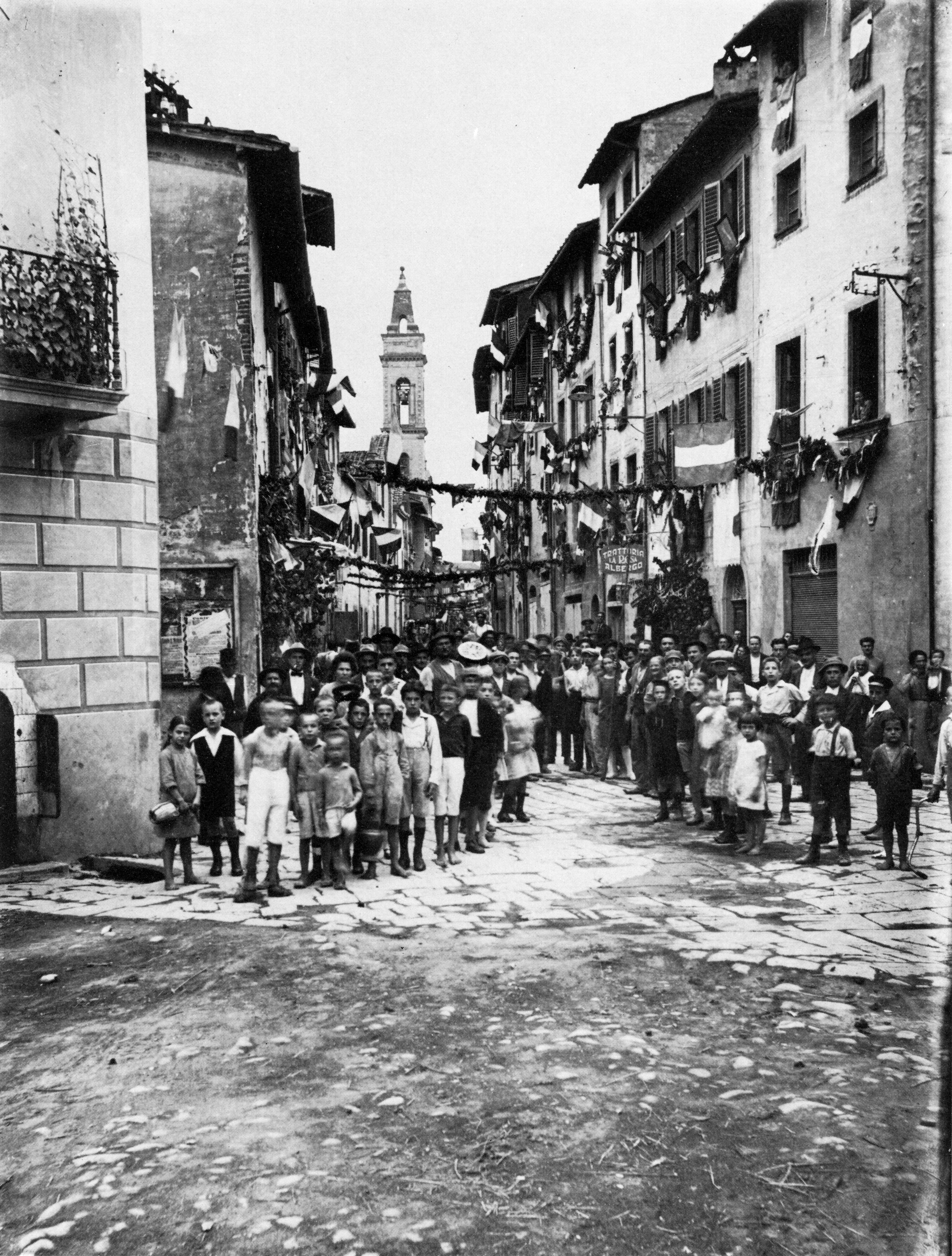 People from Montevarchi On Holiday